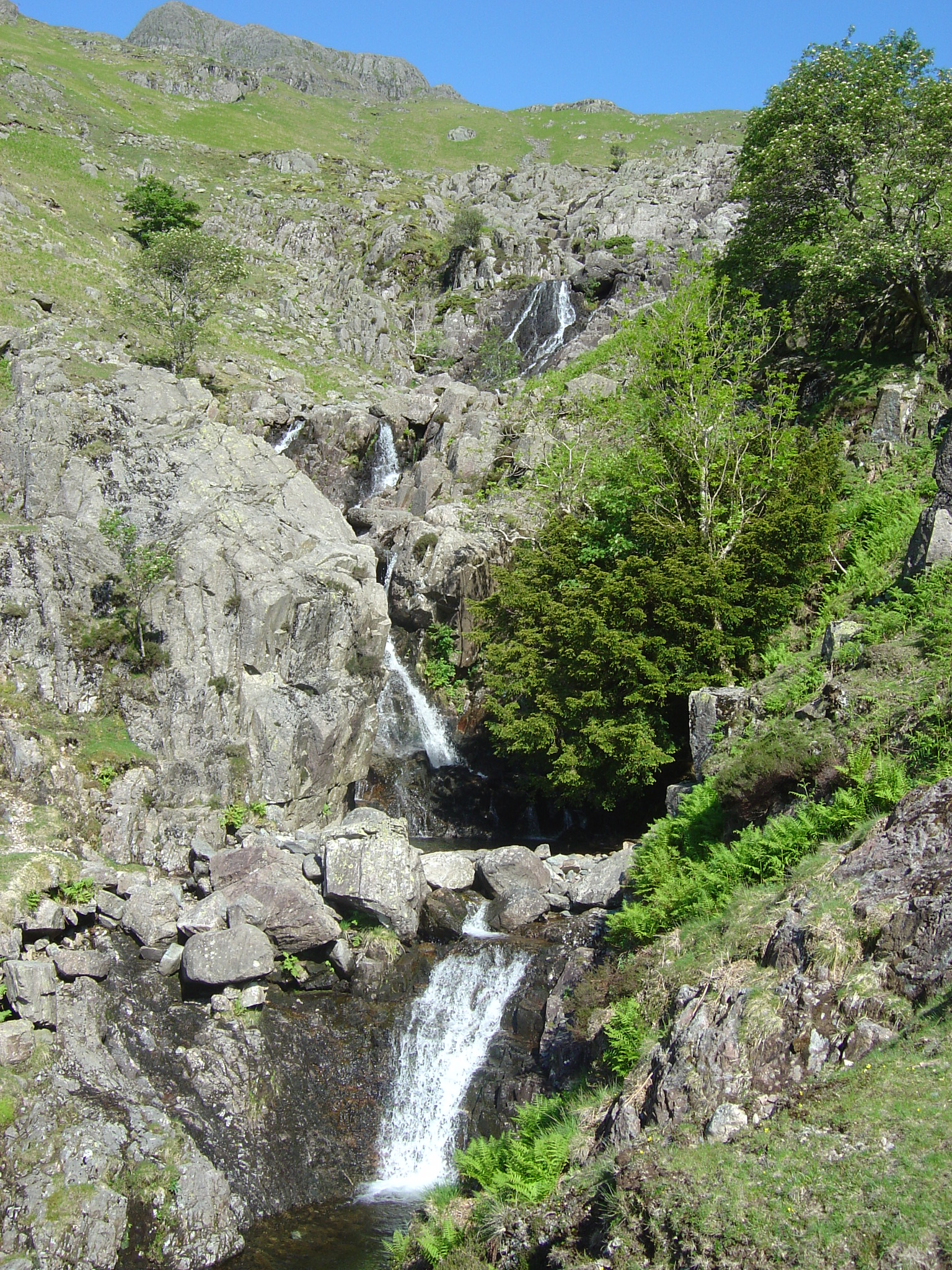 Waterfalls in Dungeon Ghyll, Lake District, England